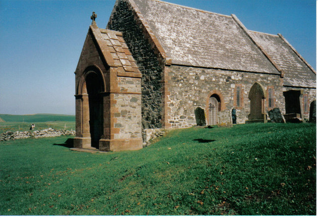 Kirkmadrine Church This is no longer used as a church but it is the site of an early Christian community. The Kirkmadrine Stones are fine sculptured stones from the 5th century. They are displayed in a glass-fronted porch at the west of the church.